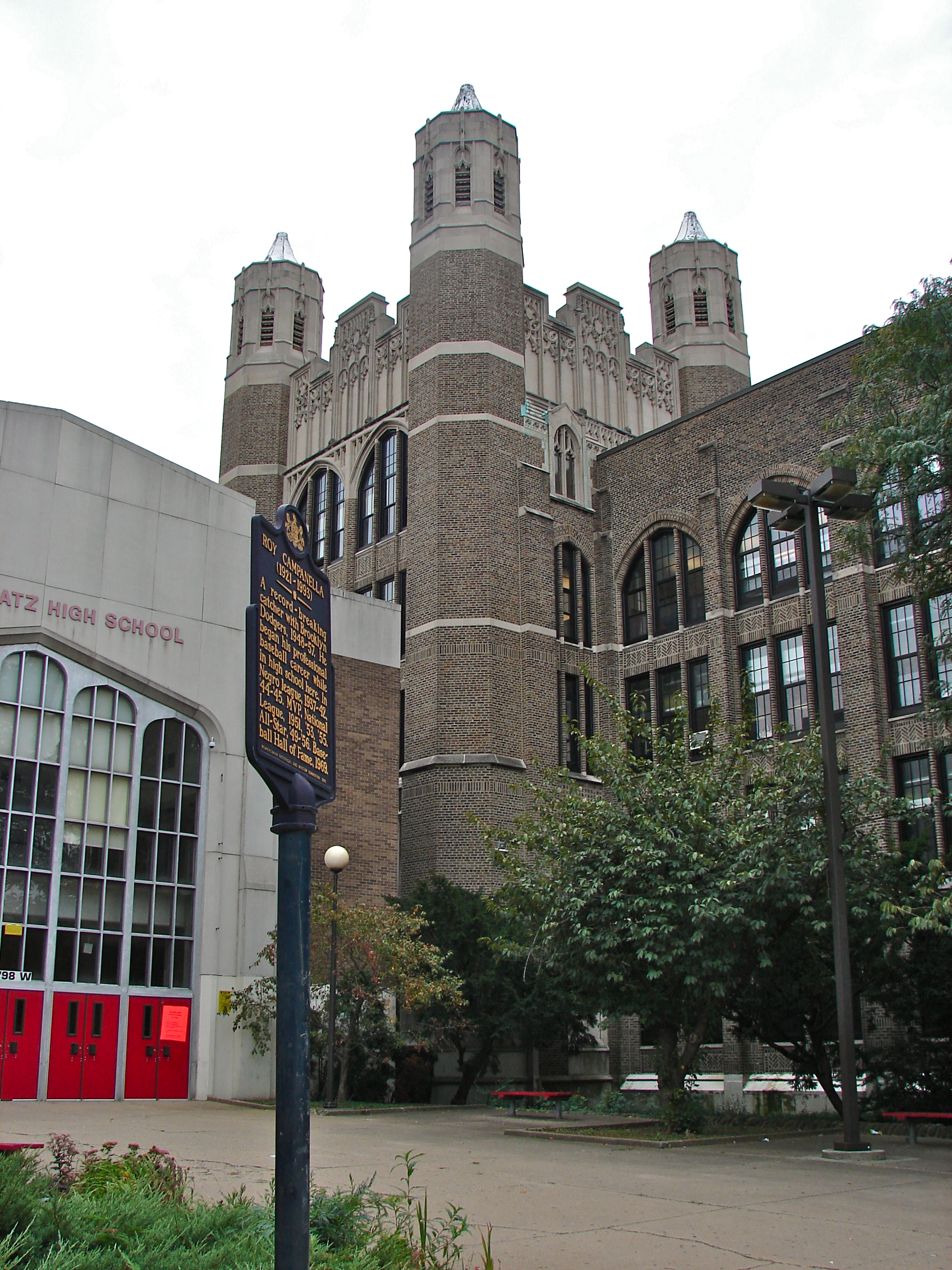 Simon Gratz High School in Philadelphia (to the left) on the NRHP since April 10, 1989. At 3901–3961 North 18th St. in the neighborhood of Nicetown–Tioga in North Philly. Roy Campanella went to school here but apparently did not graduate. The Gillespie Junior High School (to the right, also on the NRHP) has the same address and shares the same city block but is a separate building to the south of Gratz.